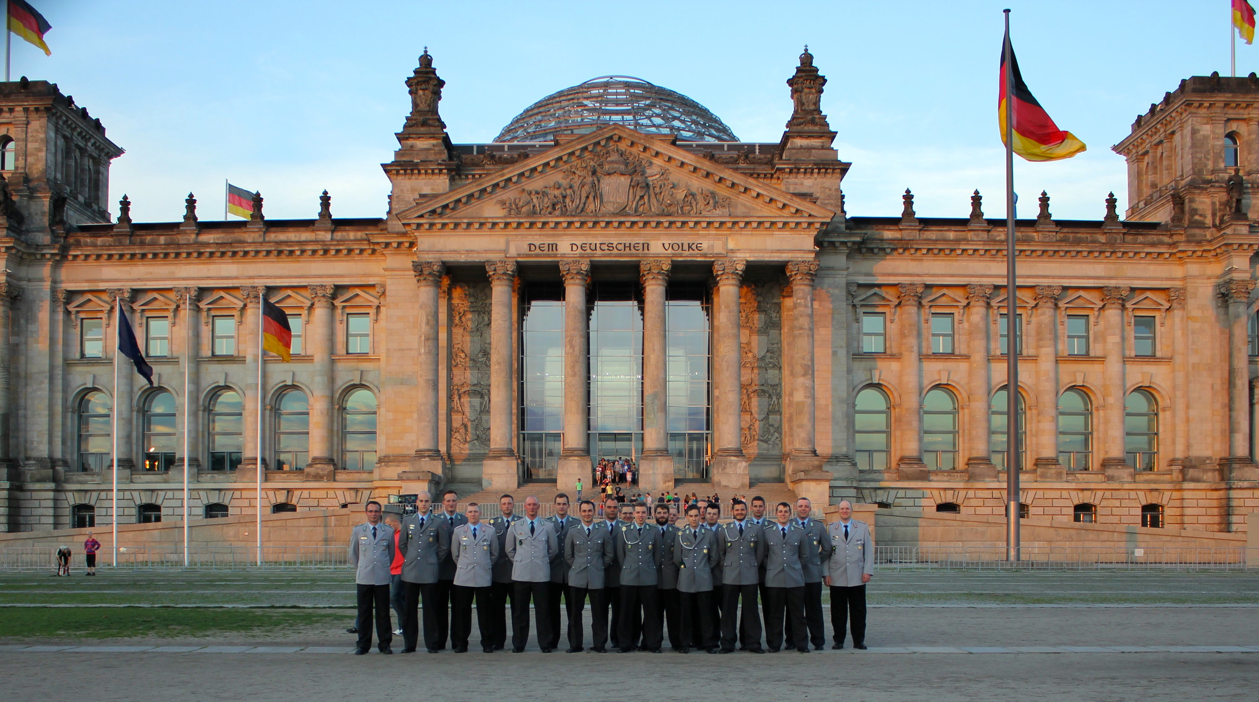 German soldiers visiting the German parliament, the Bundestag, in Berlin.